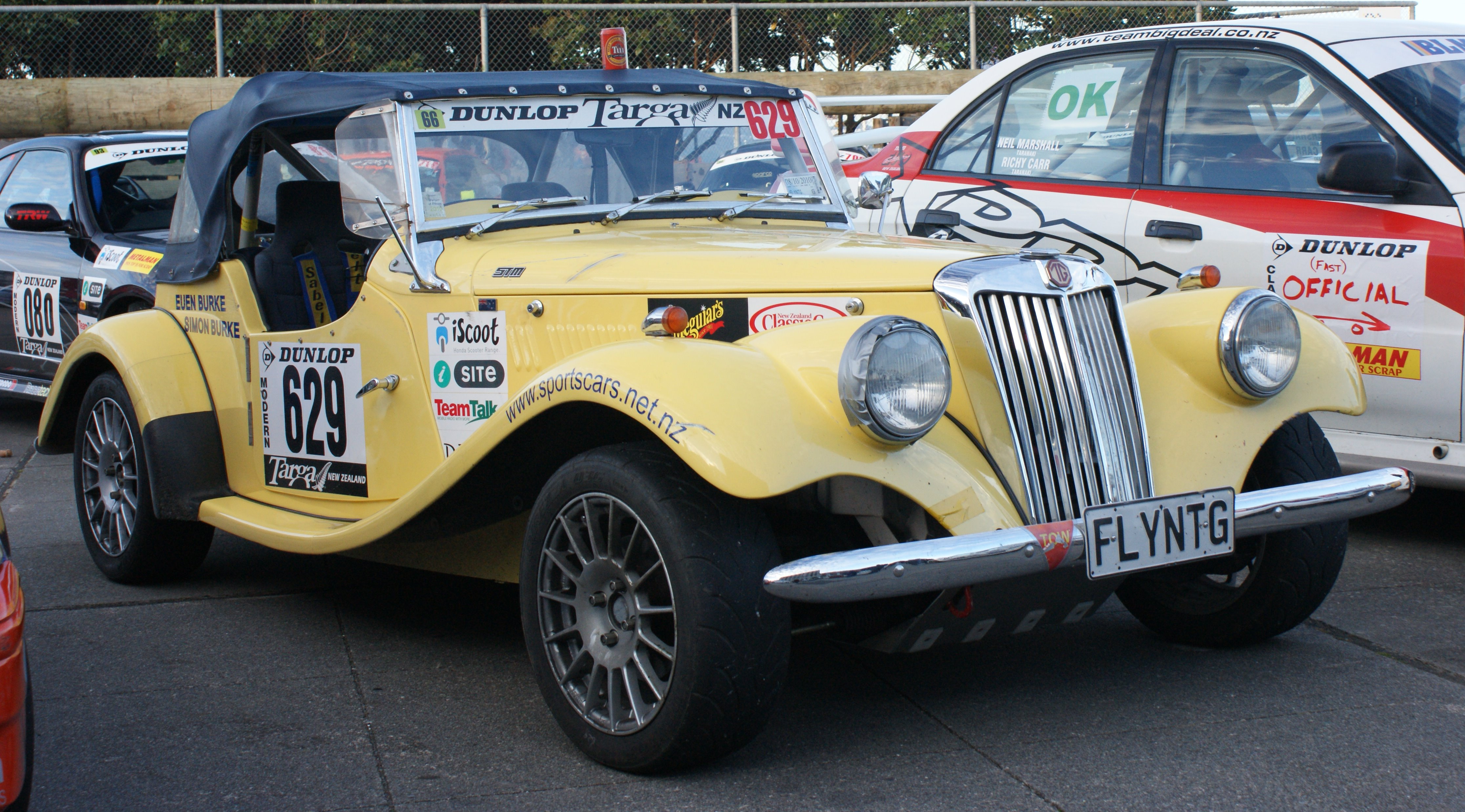 2007 LVVTA T Car